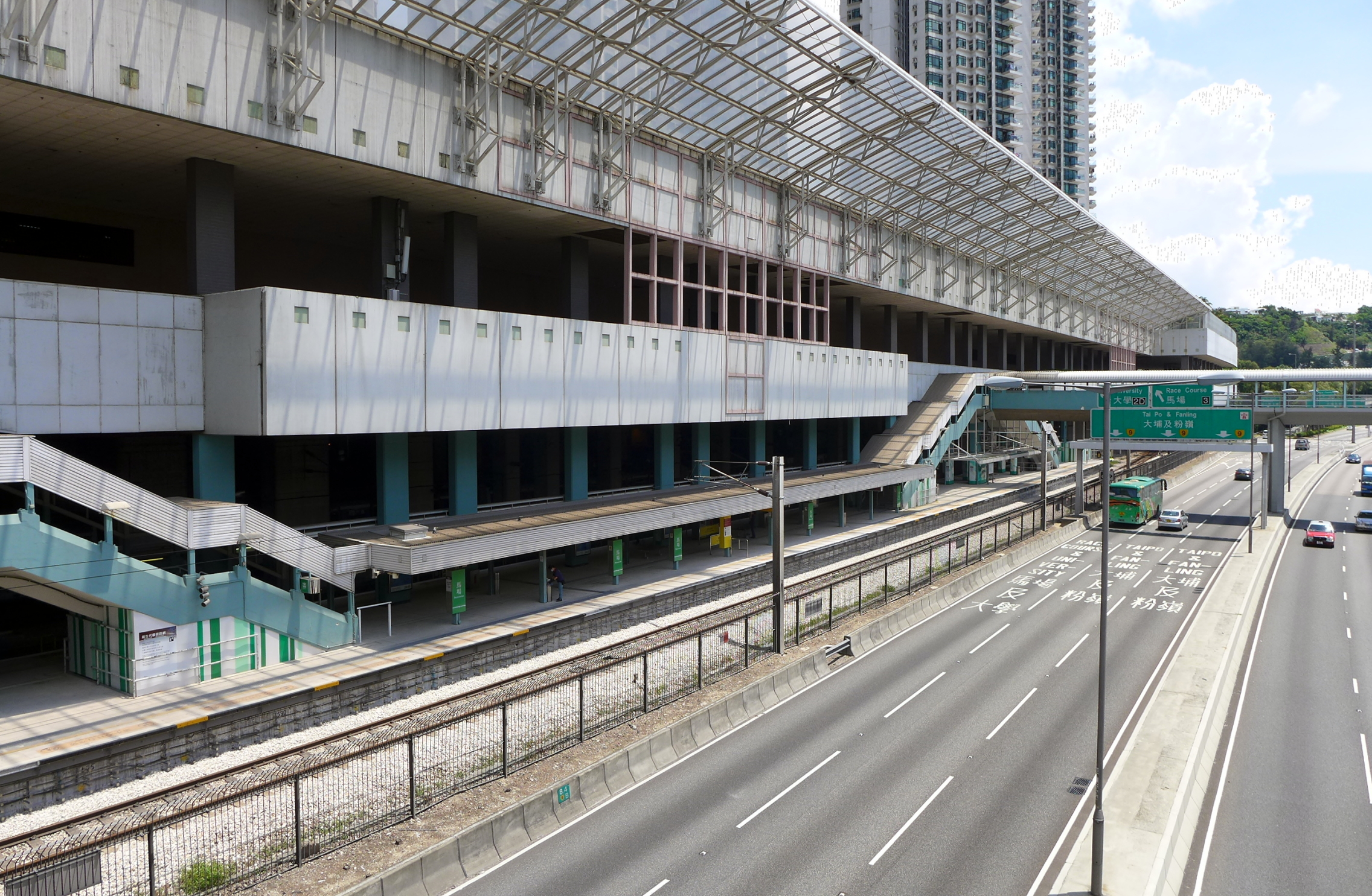 Racecourse Station